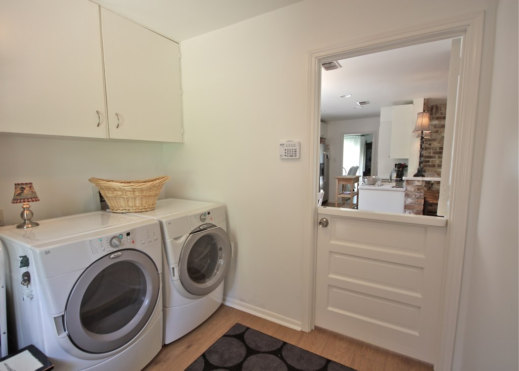 Laundry room